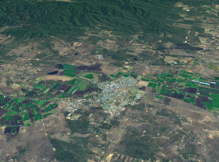 NASA World Wind Landsat or Blue Marble image of Papua New Guinea or Australia